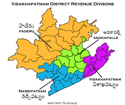 Revenue divisions map of Visakhapatnam district